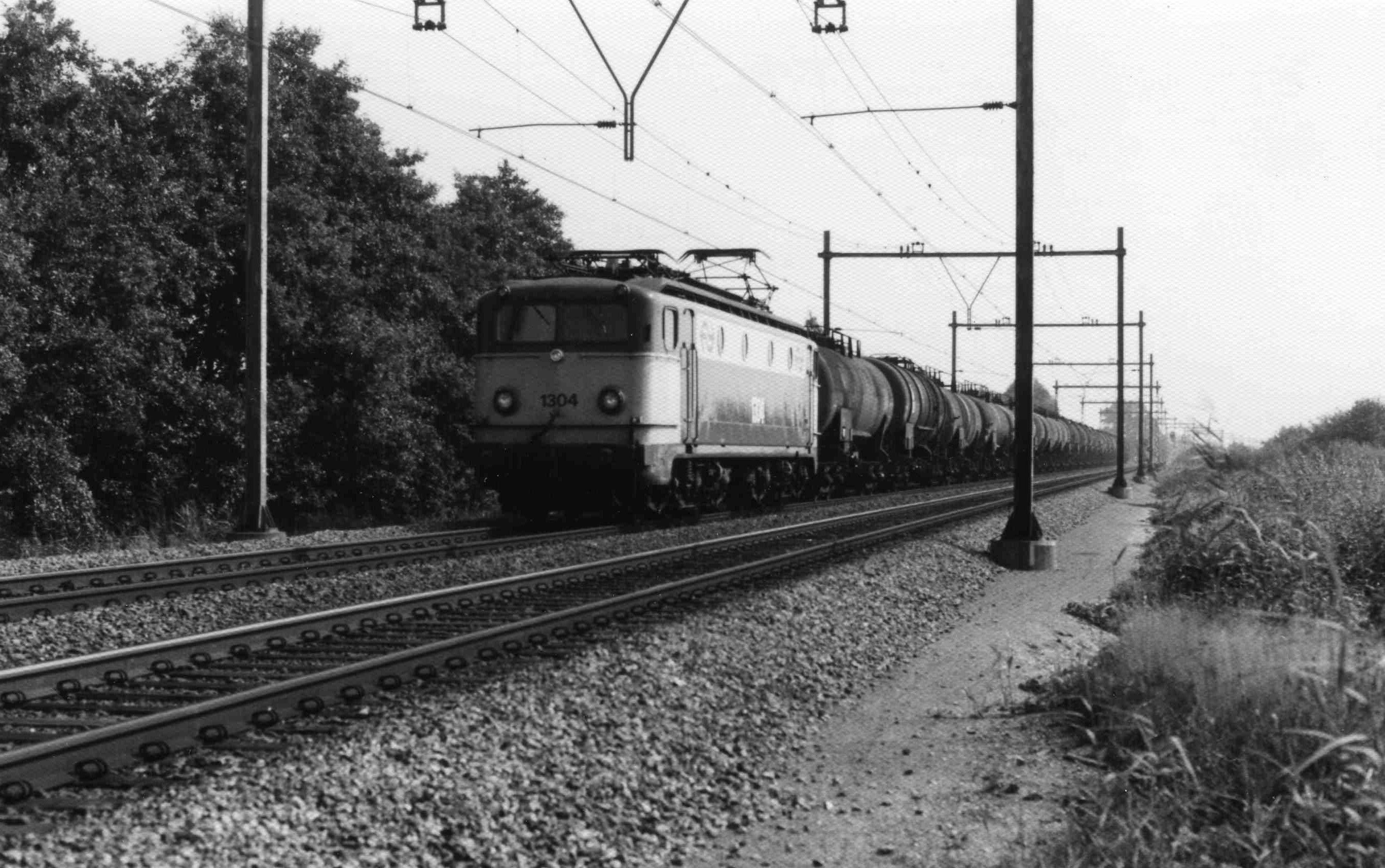 Freighttrain near Terschuur, the Netherlands